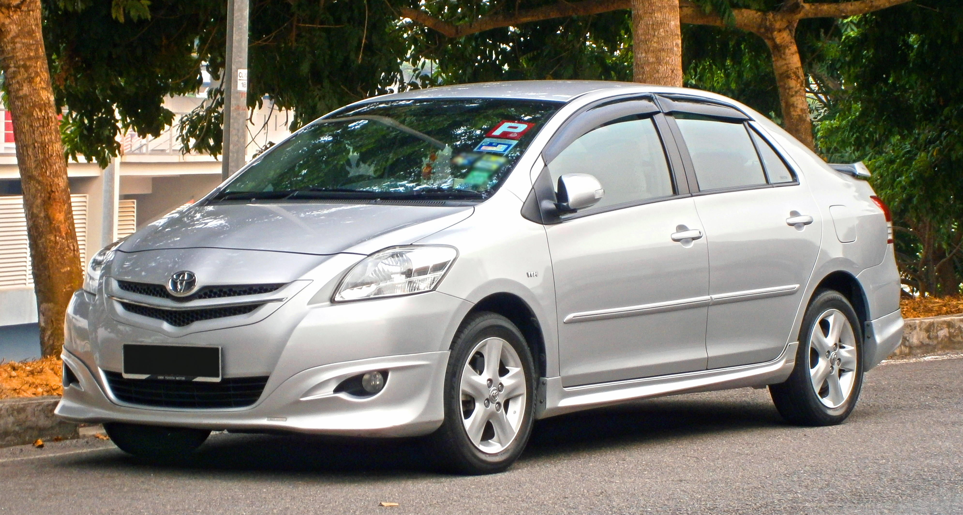 2010 Toyota Vios 1.5G (with opt. TRD Sportivo bodykit) in Cyberjaya, Malaysia.